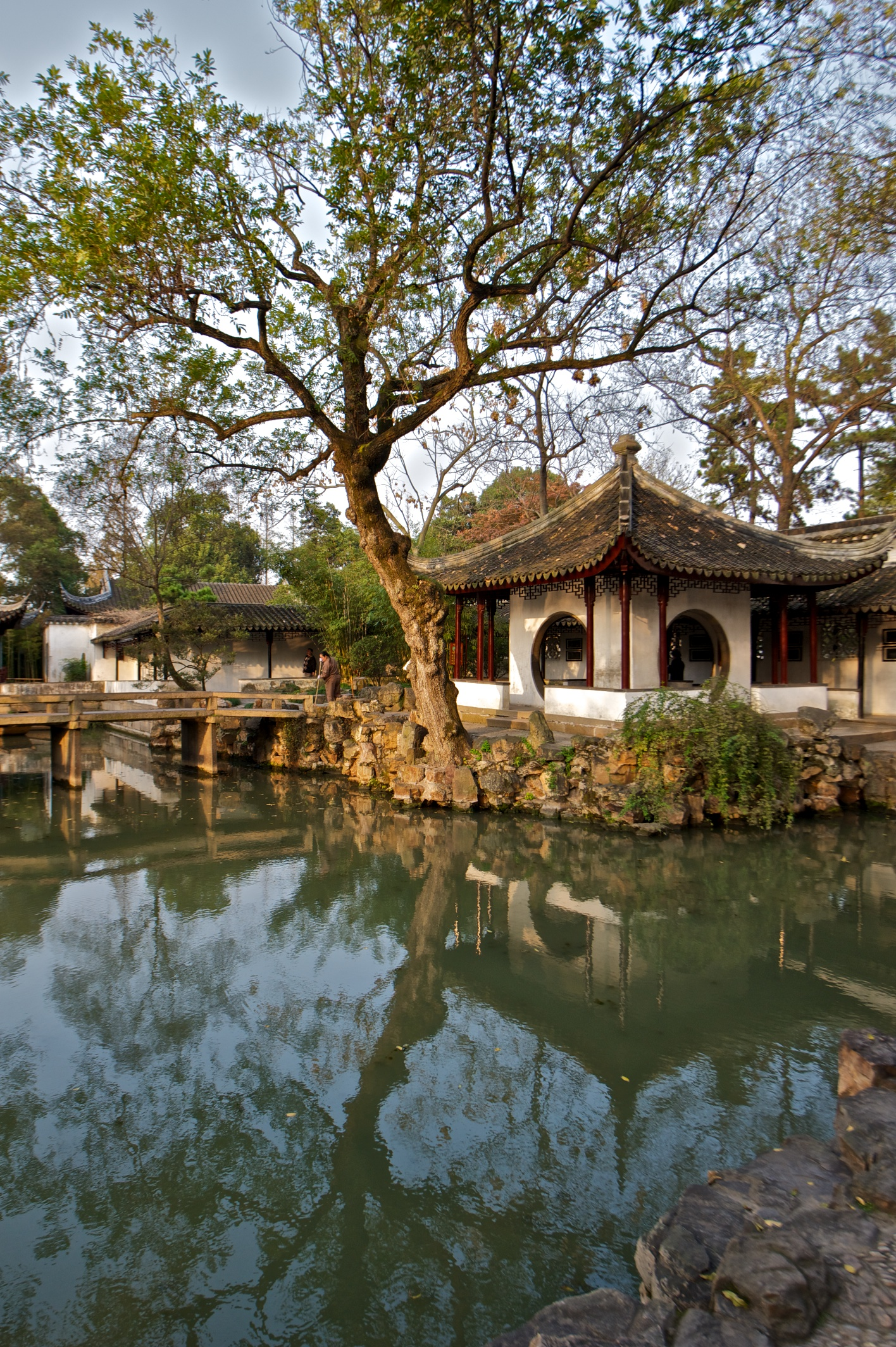 拙政园 － Humble Administrator's Garden, Suzhou.